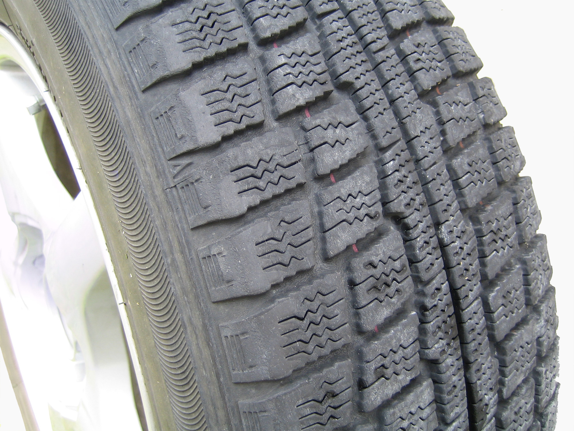 Studless tire (スタッドレス・タイヤ)